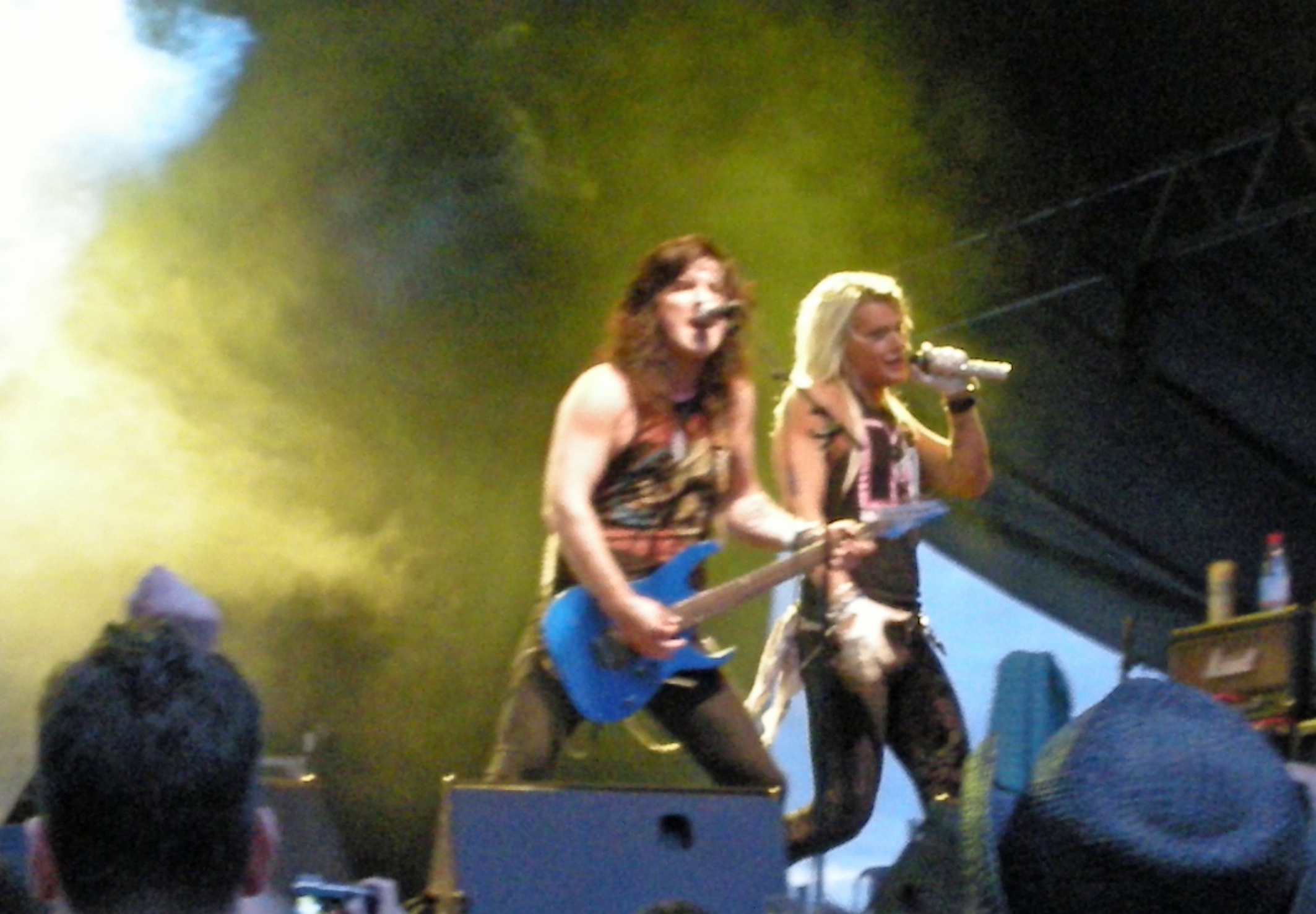 Finnish glam metal band Reckless Love at Skogsröjet 2012